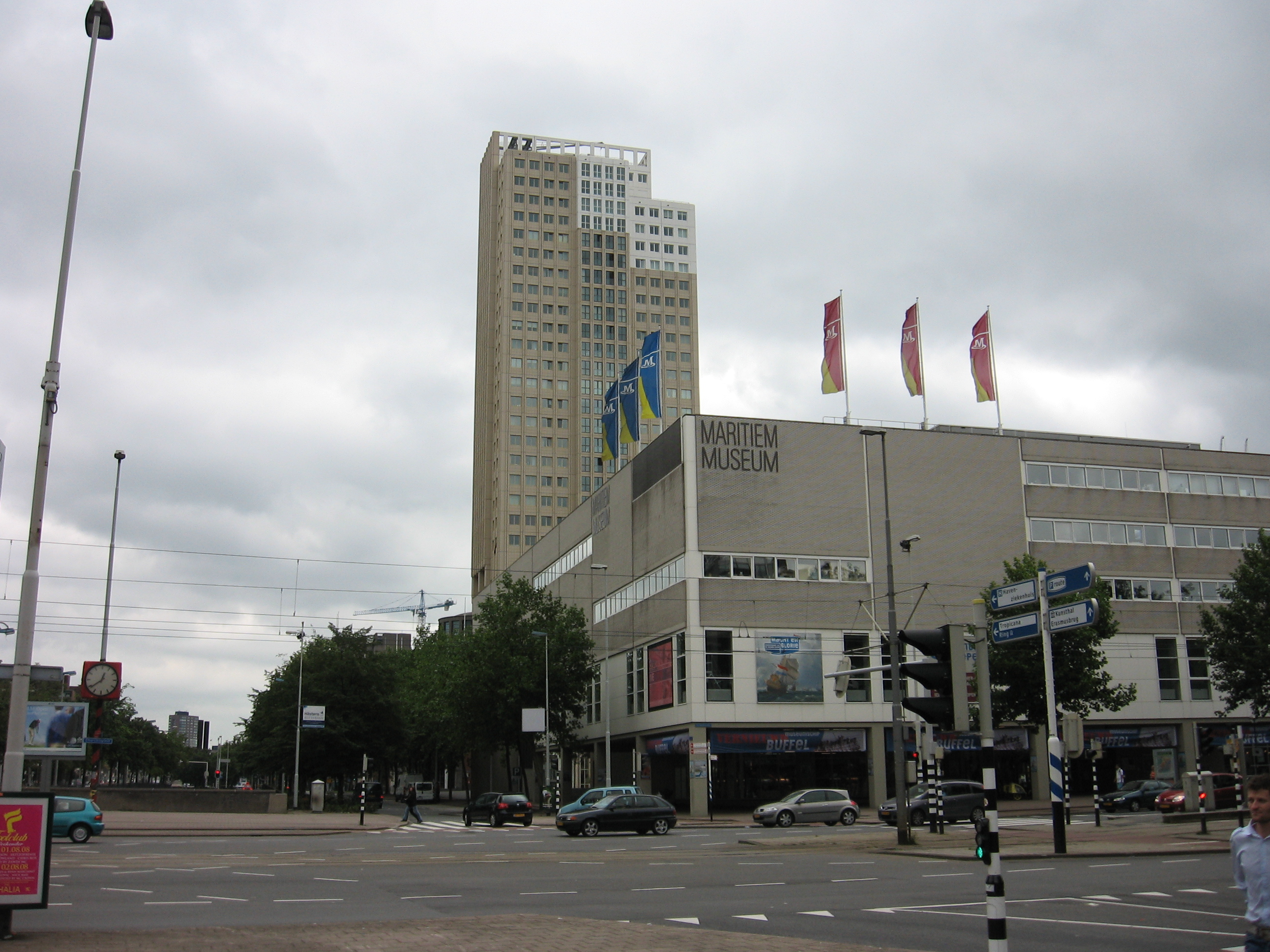 Maritiem Museum Rotterdam